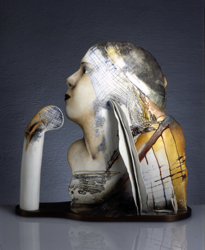 Jindra Viková, Definition of a moment, 1986, porcelain, metal 63 x 92 cm, Gold medal - World Biennale Baghdad